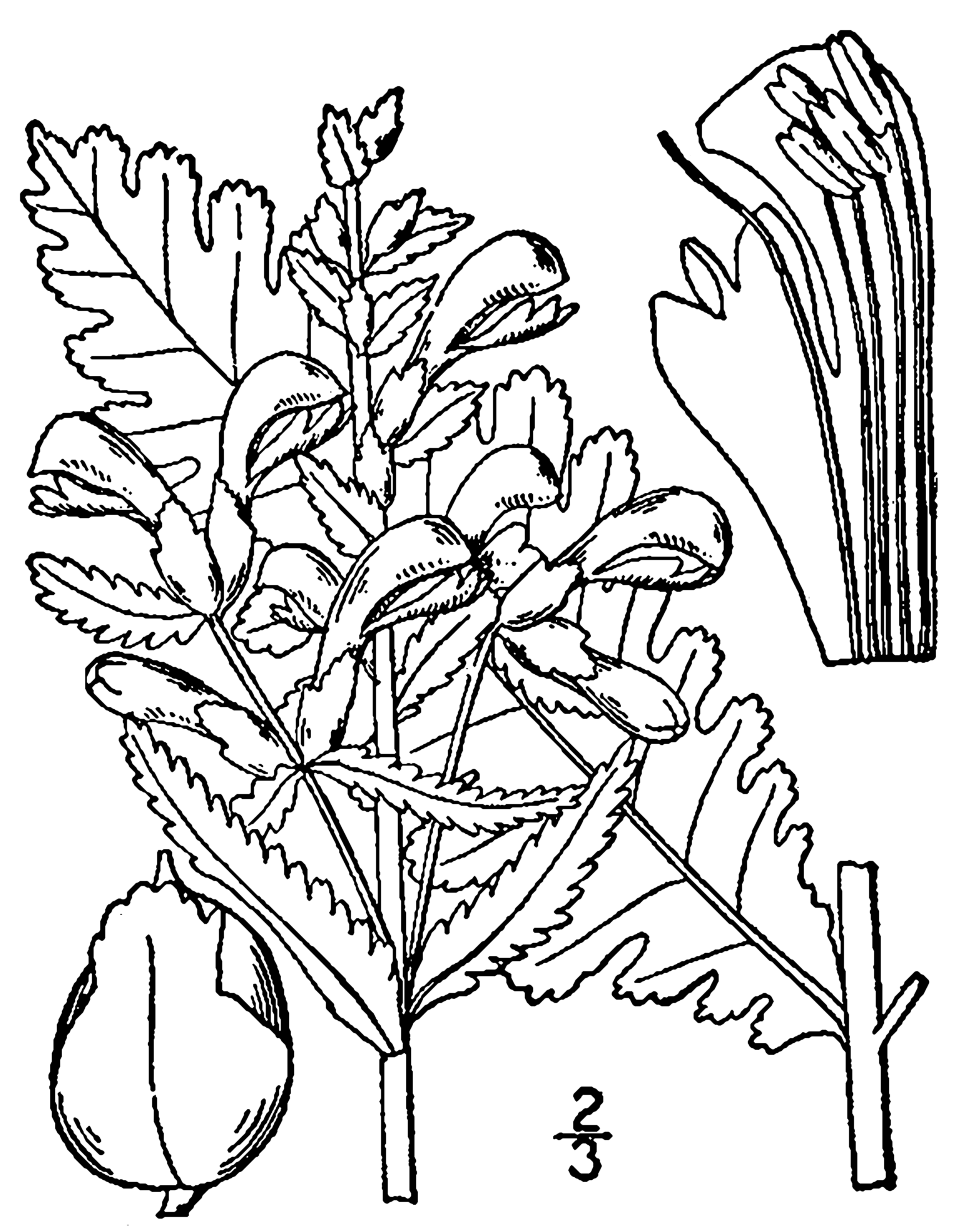 Pedicularis lanceolata Michx. - swamp lousewort